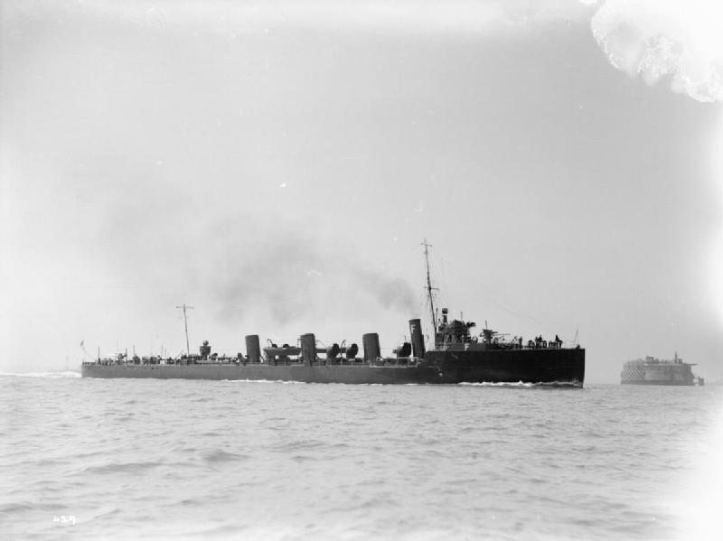 Photograph of British destroyer HMS Amazon.